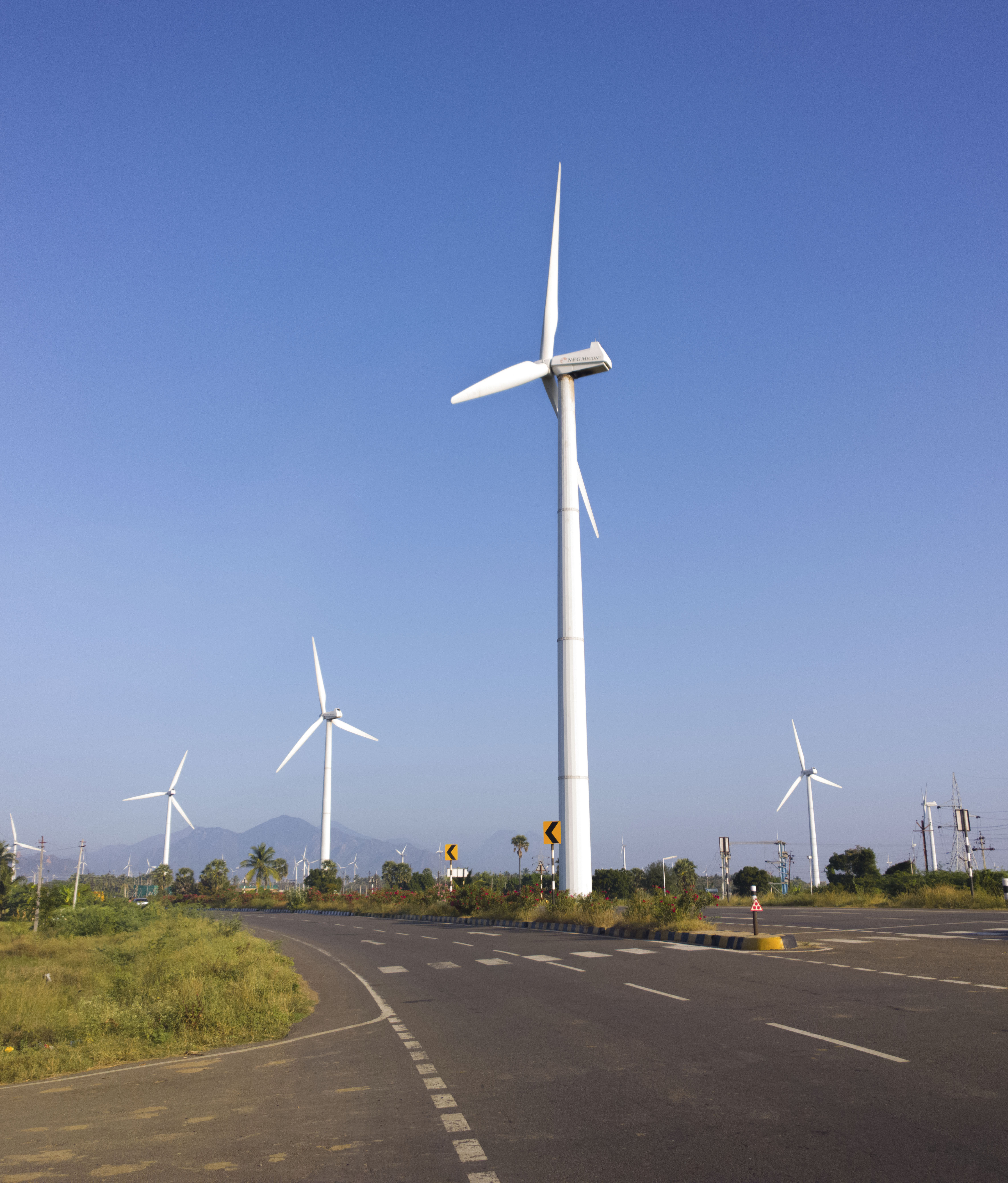 The wind turbine is one of the many private owned turbines in the area.. It's part of the Aralvaimozhi wind form in Tamil Nadu.